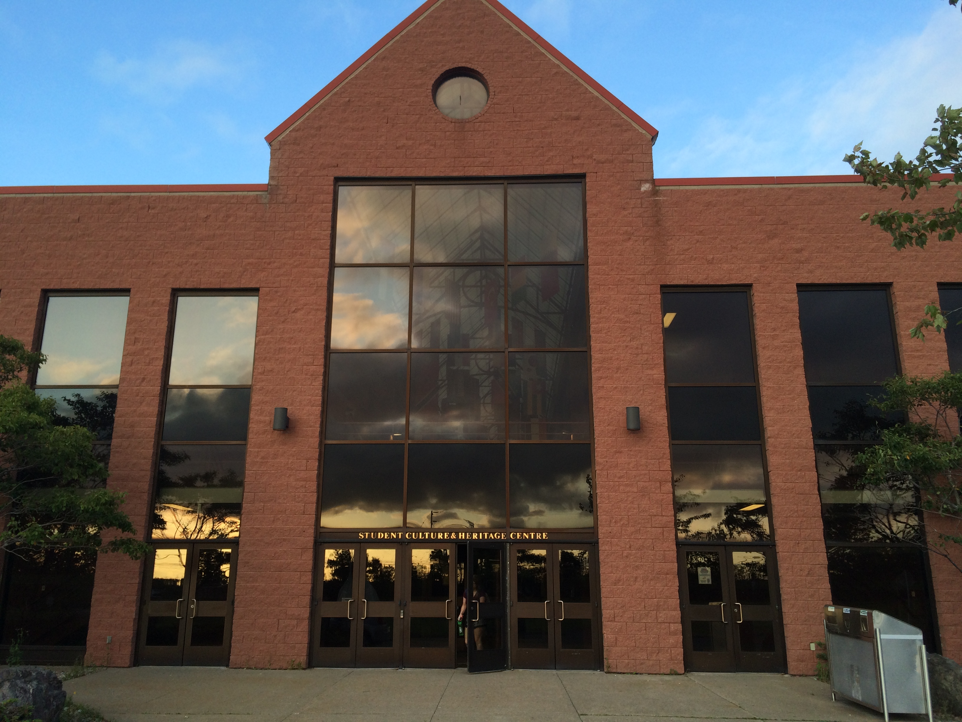 The Culture & Heritage Centre, Block CE.